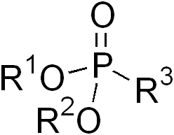 Phosphonate